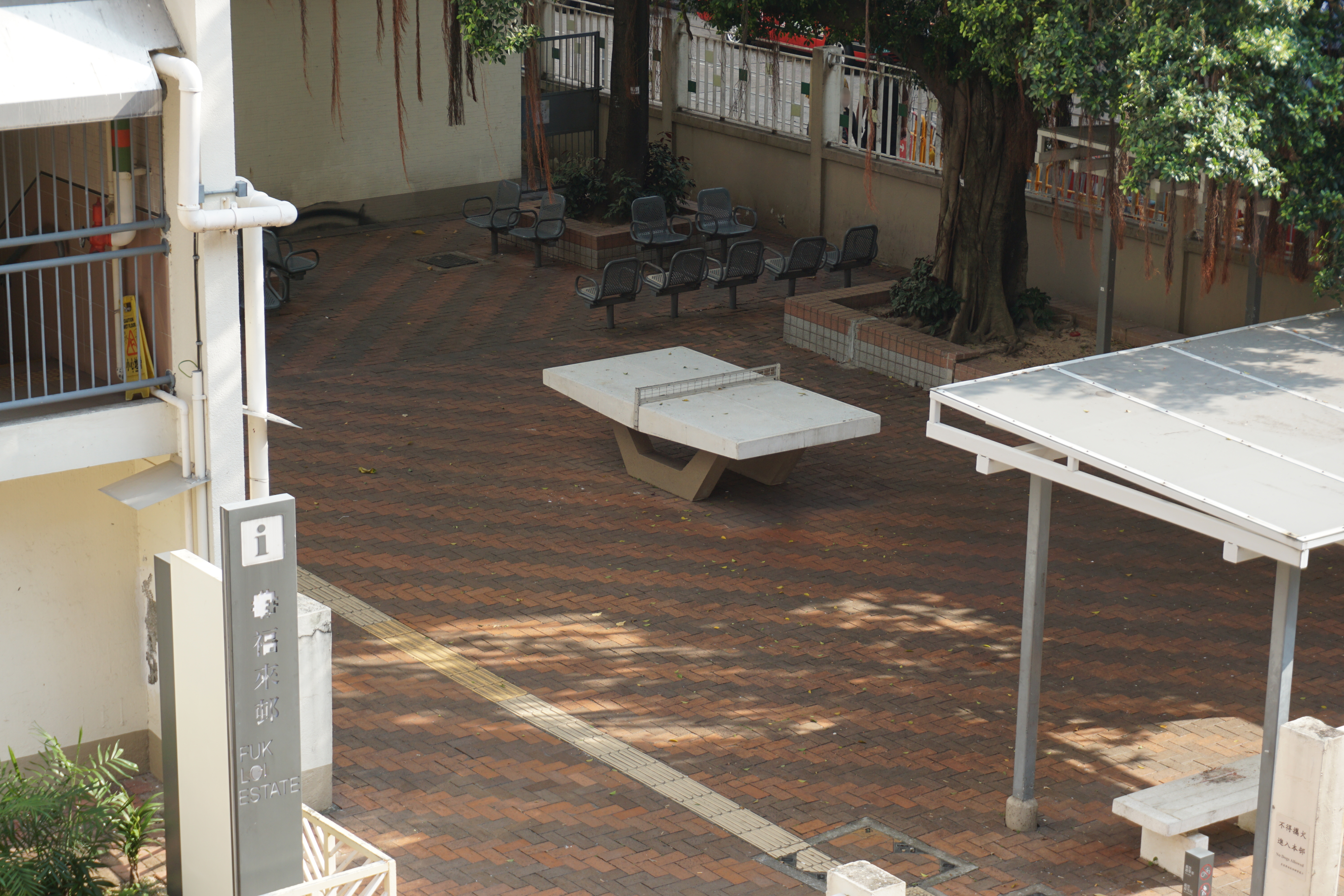 Fuk Loi Estate in Tsuen Wan, Hong Kong.